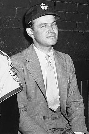 Jack Kent Cooke with baseball player in Toronto Maple Leafs Baseball Club dugout, Maple Leaf Stadium, Toronto, Ontario, Canada